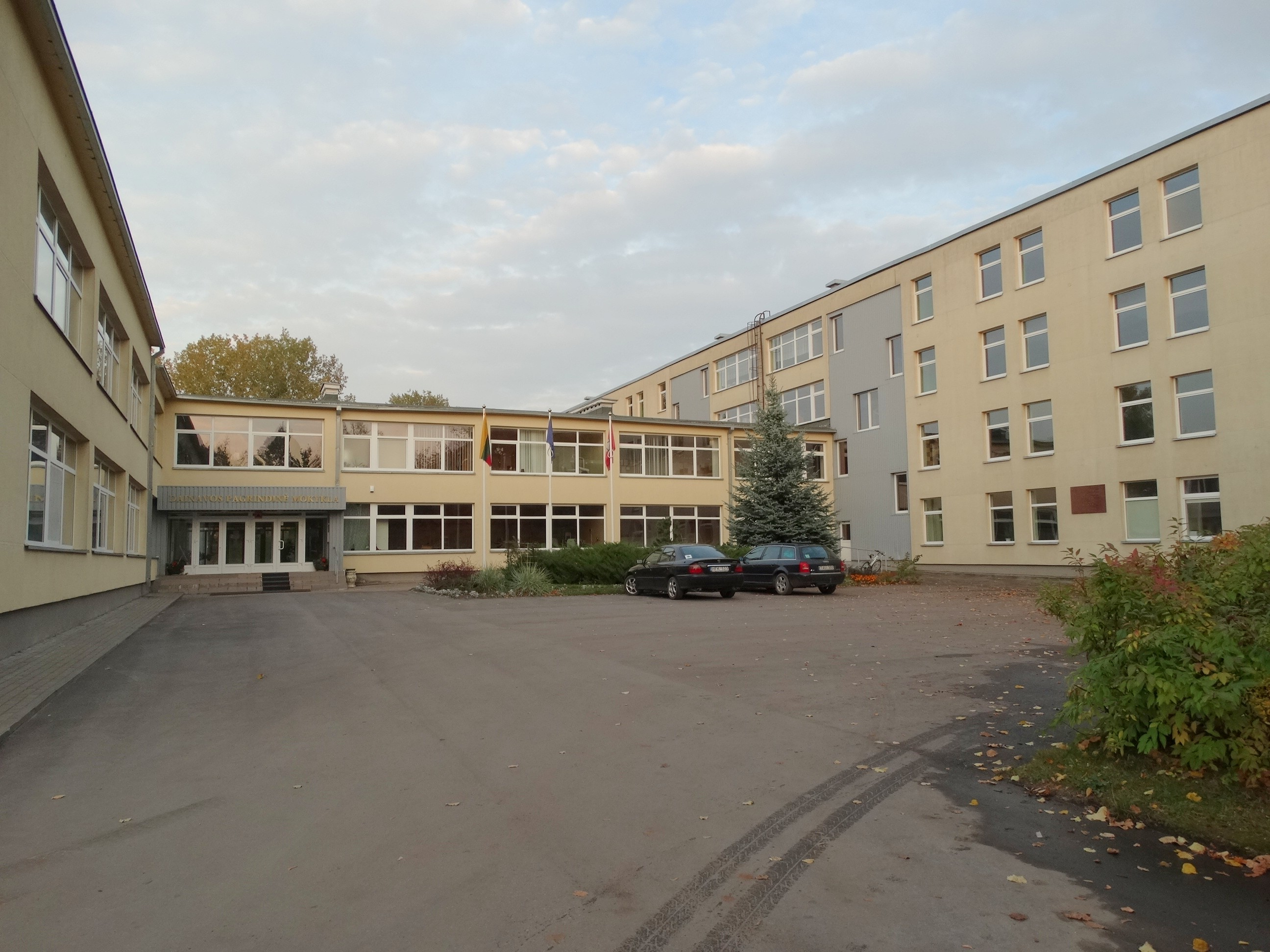 Dainava Basic School, Alytus, Lithuania